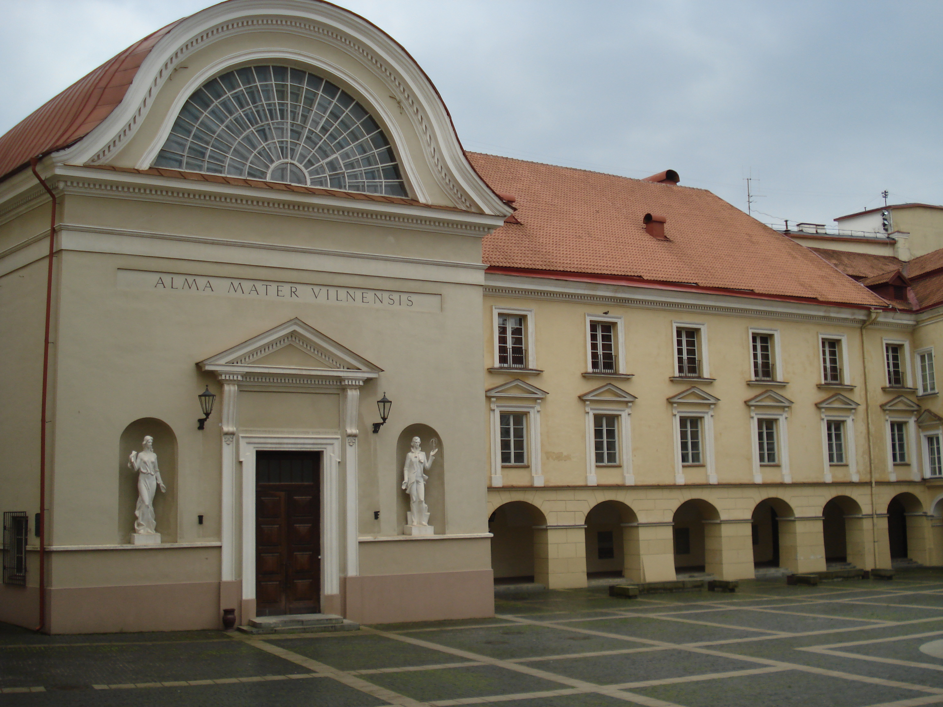 Vilnius University. Great Courtyard